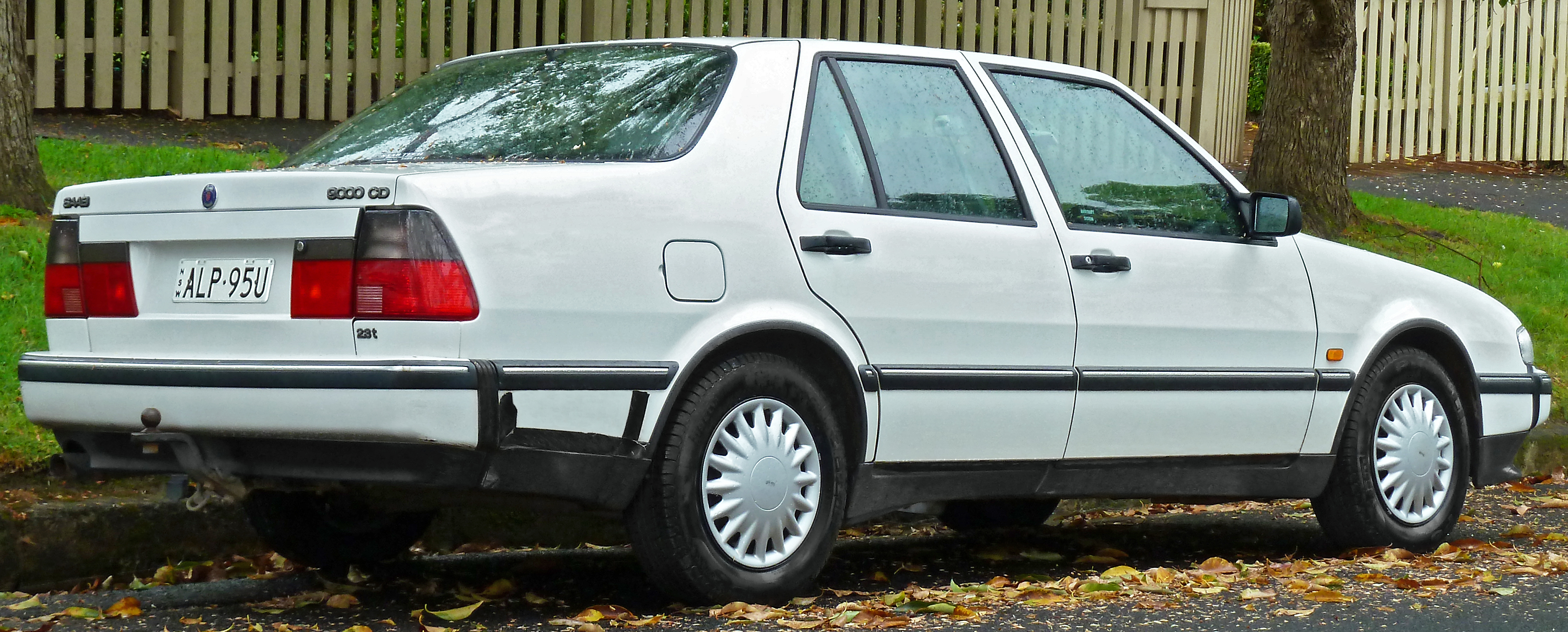 1994–1997 Saab 9000 CD 2.3t sedan. Photographed in Roseville, New South Wales, Australia.